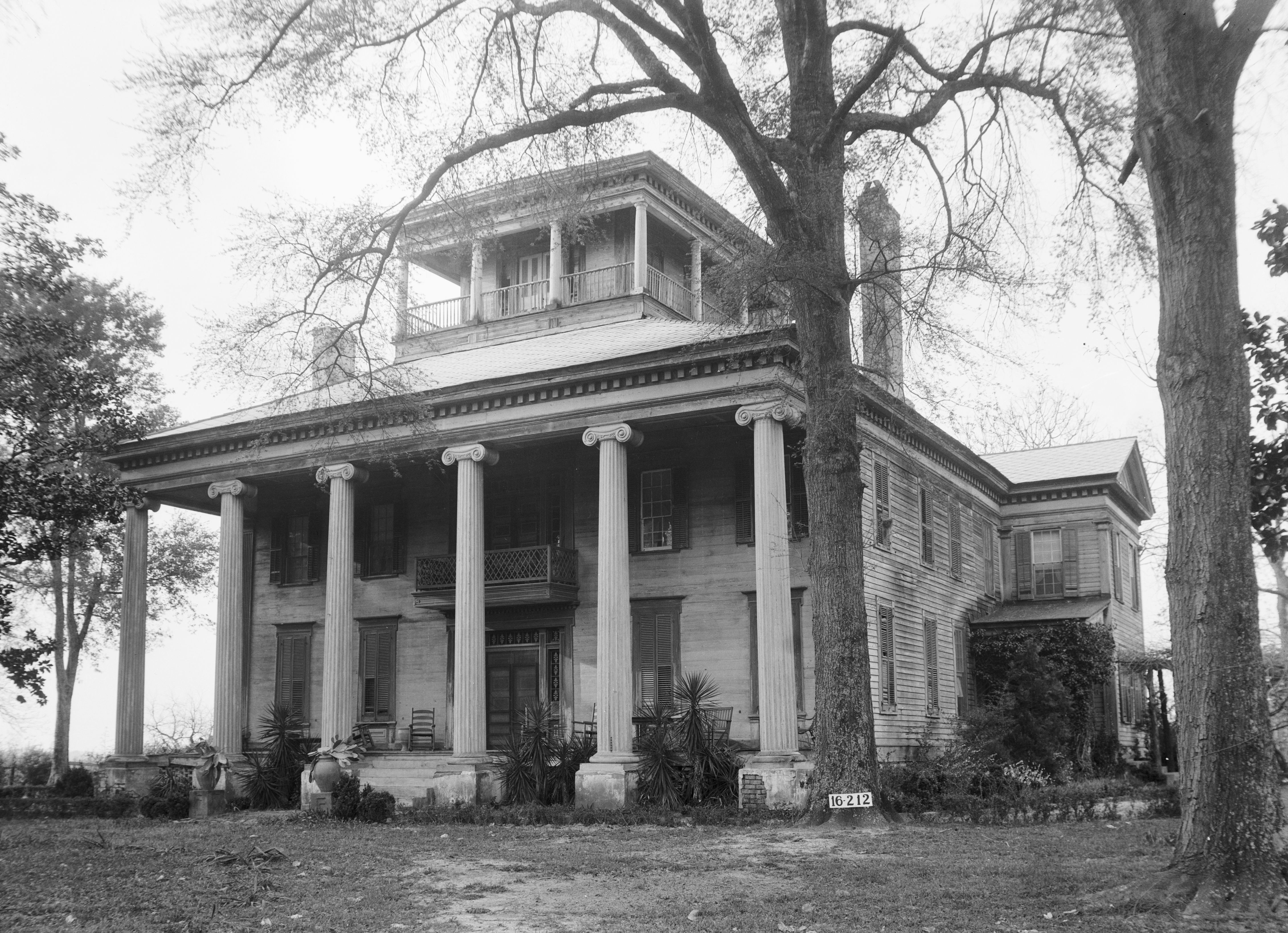 Rosemount — County Road 19, Forkland vicinity, Greene County, Alabama. FRONT VIEW. - SOUTH ELEVATION. Image courtesy of Historic American Buildings Survey—HABS.